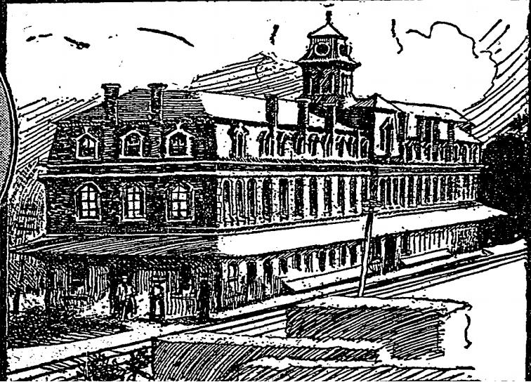 Peter Turner's Orange Hotel, the original station depot constructed as part of the opening of the New York and Lake Erie Rilroad in Turner, New York (now Harriman).